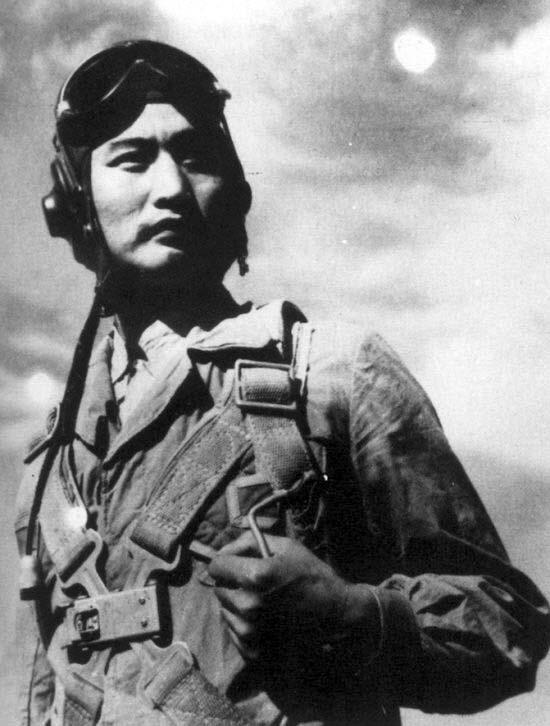 In 1951, Liu Yudi took part in the Korean War.